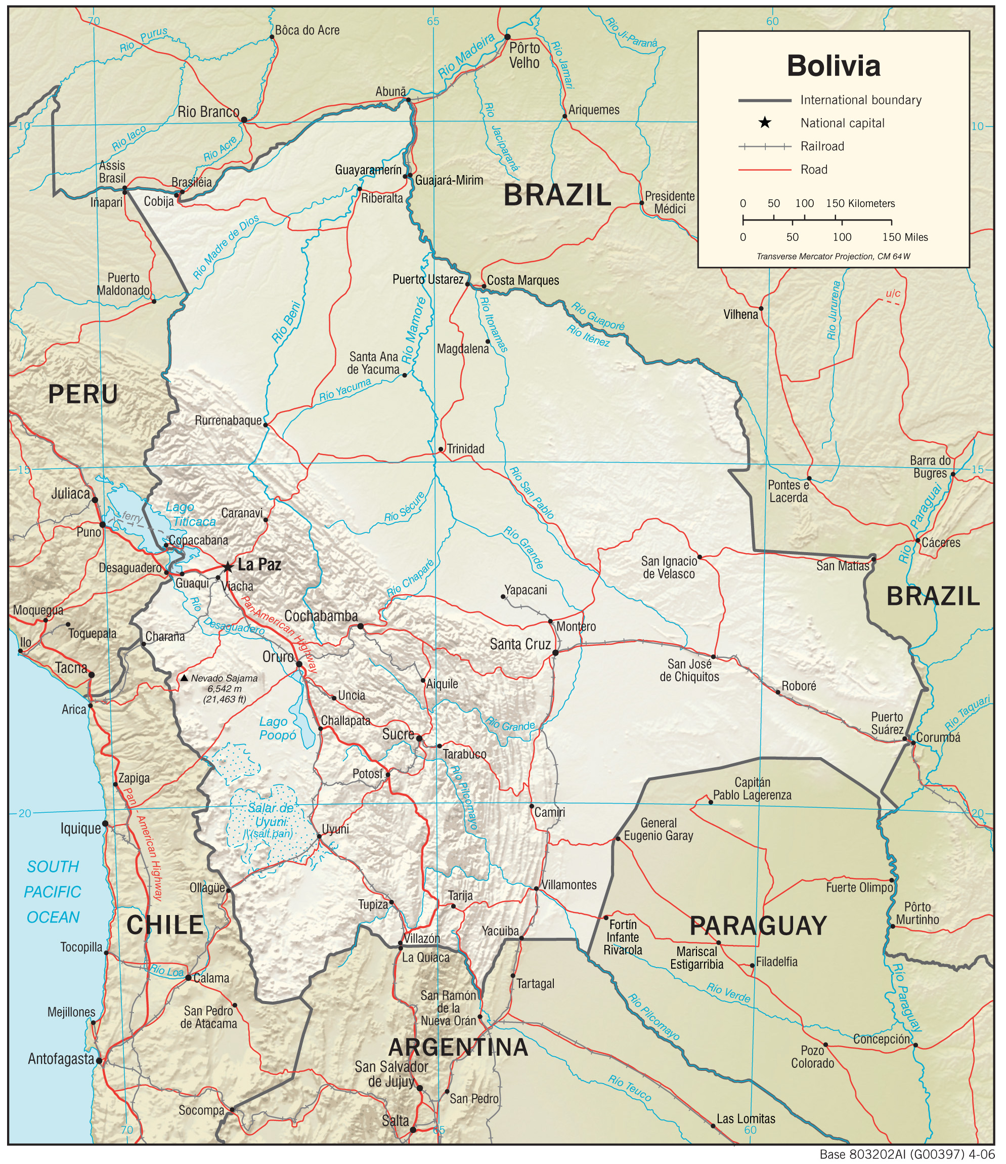 Topographic map of Bolivia (shaded relief), 2006.